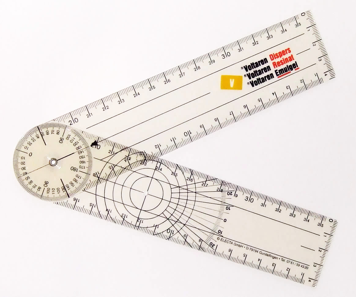 simple medical goniometer (protractor)